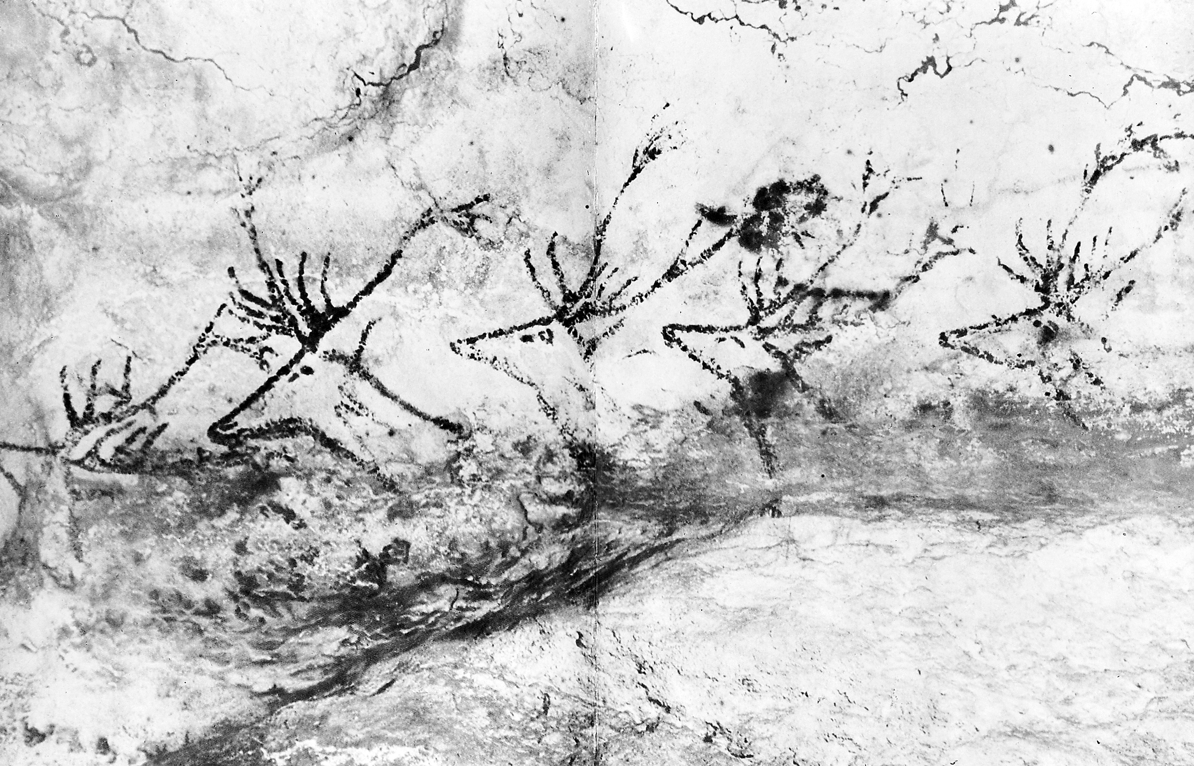 Scene showing stags swimming. Wellcome Images Keywords: Prehistory